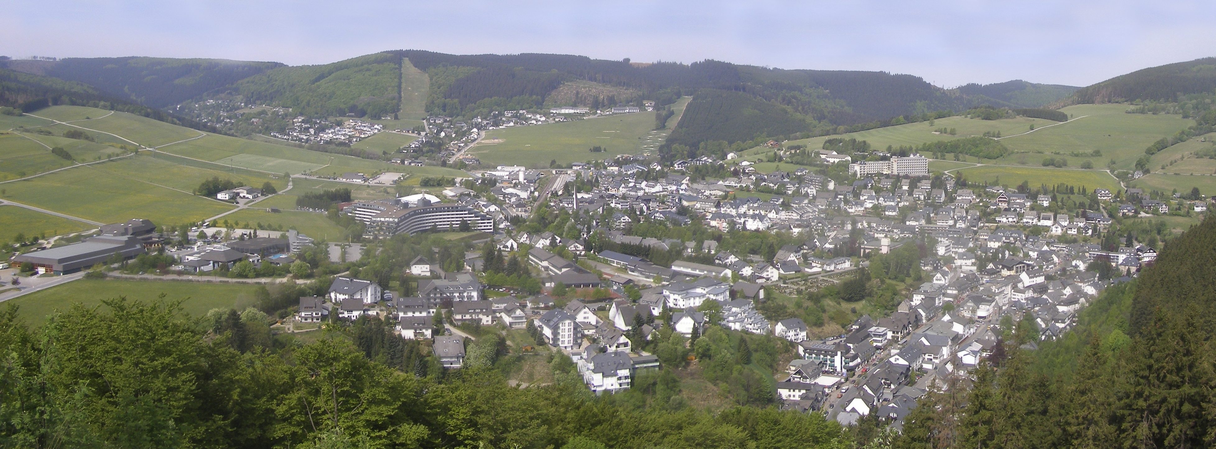 Panoramablick Willingen